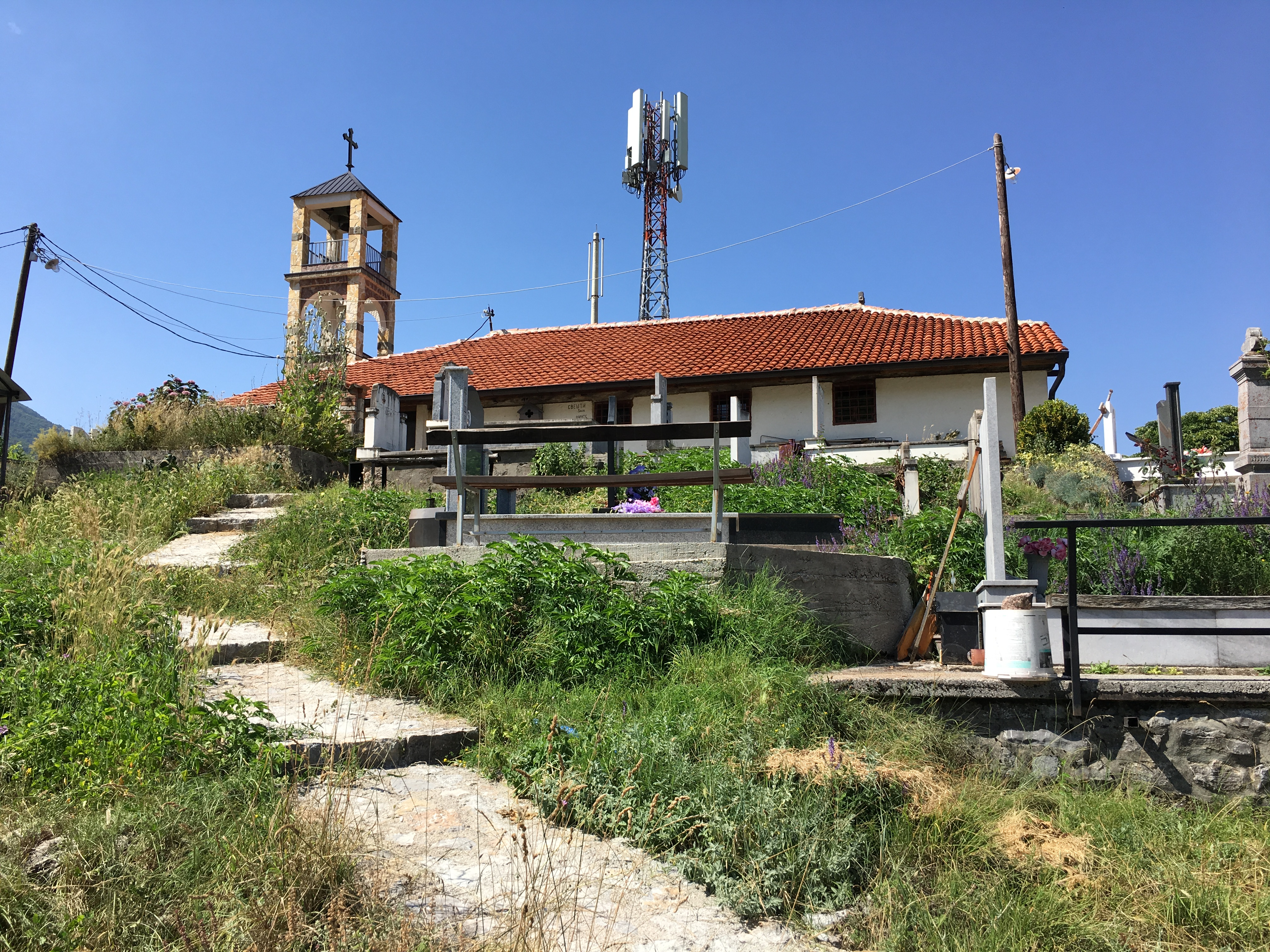 St. Athanasius Church in the village of Oktisi